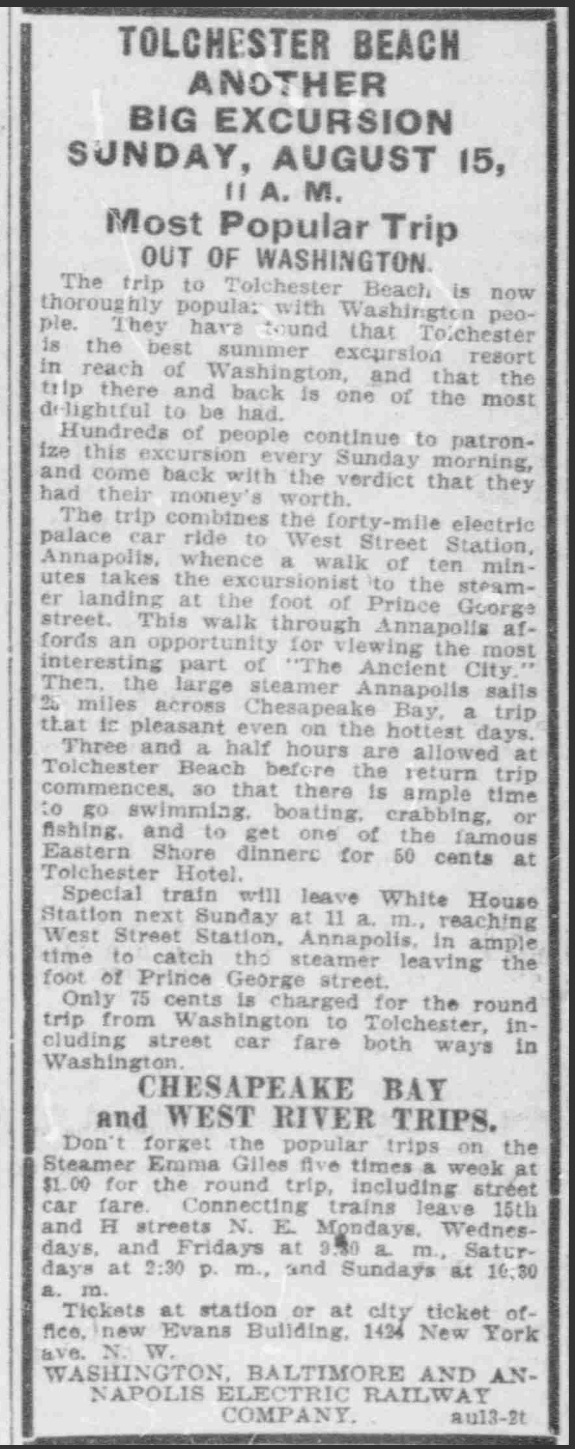 A scan of an advertisement from the Washington Times, August 14, 1908